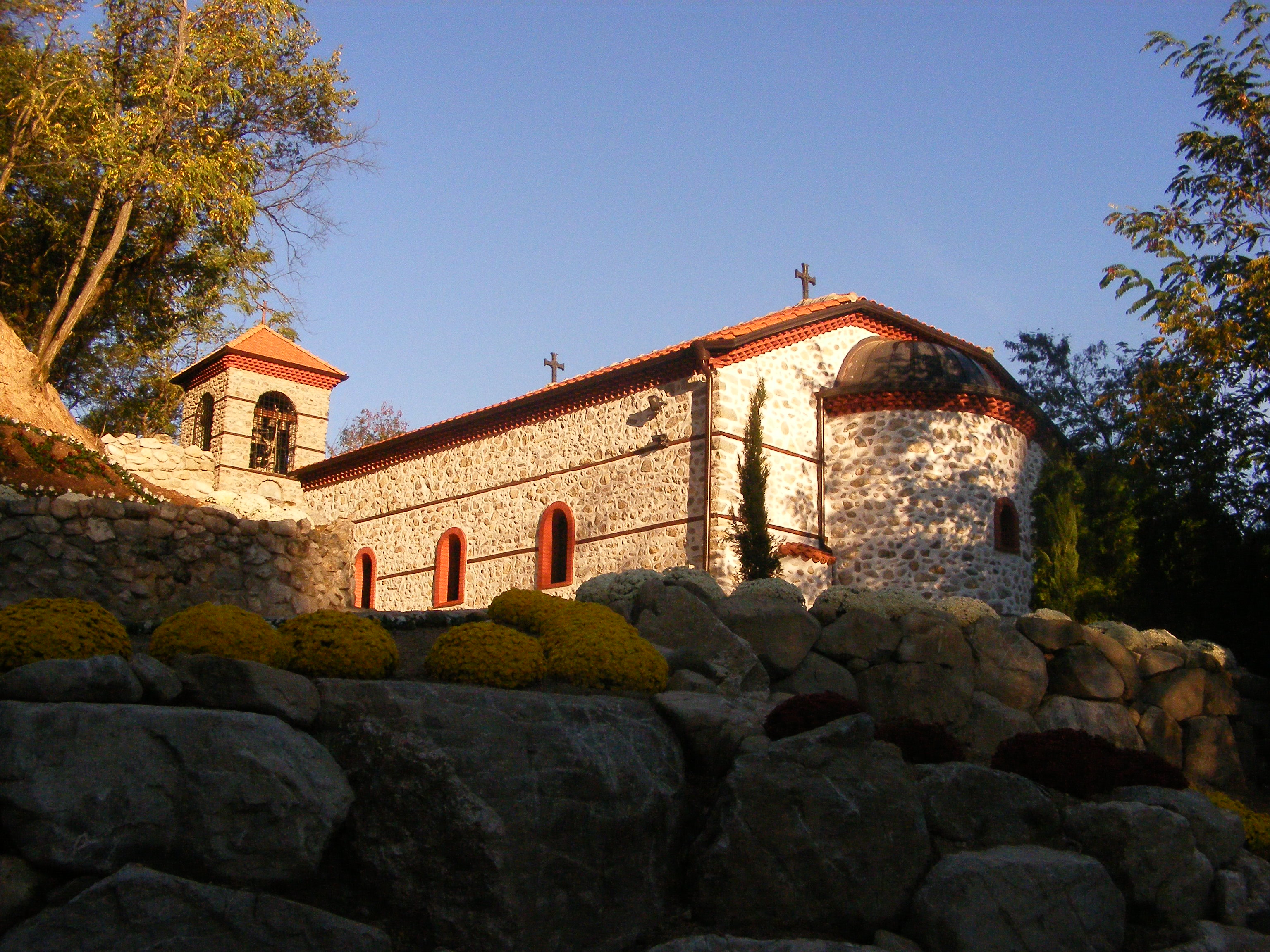 Church "St. Paraskeva - Petka, Melnik, Bulgaria